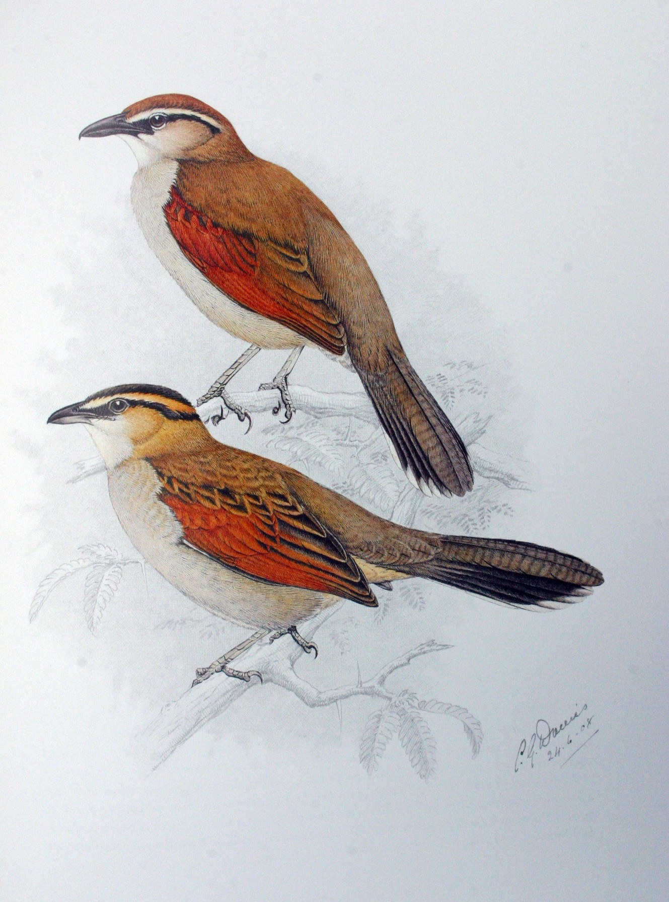 Tchagra and Blackcrowned Tchagra (adult males) Tchagra australis (above) and Tchagra senegala